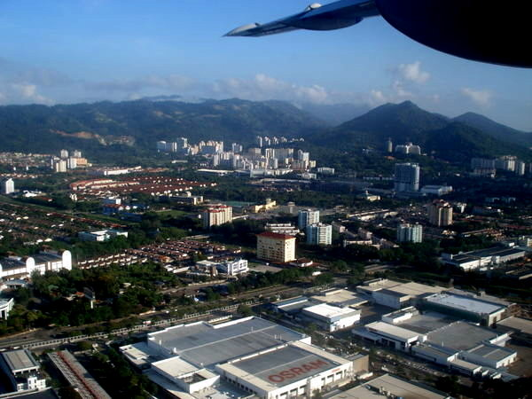 Aerial view of the Bayan Lepas Free Industrial Zone, as seen from a landing plane on its descent towards the Penang International Airport.